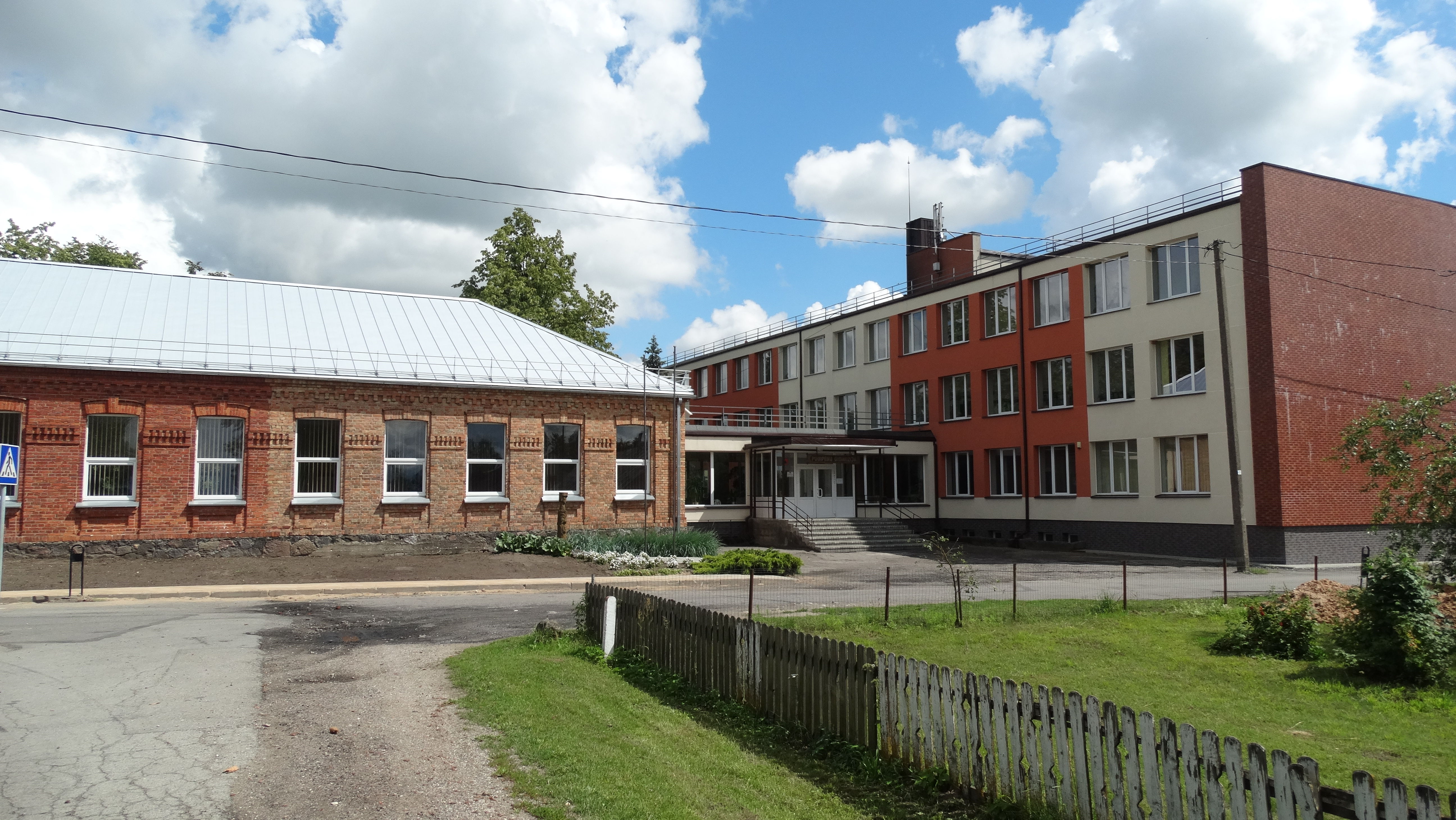 Gymnasium, Pumpėnai, Pasvalys District, Lithuania